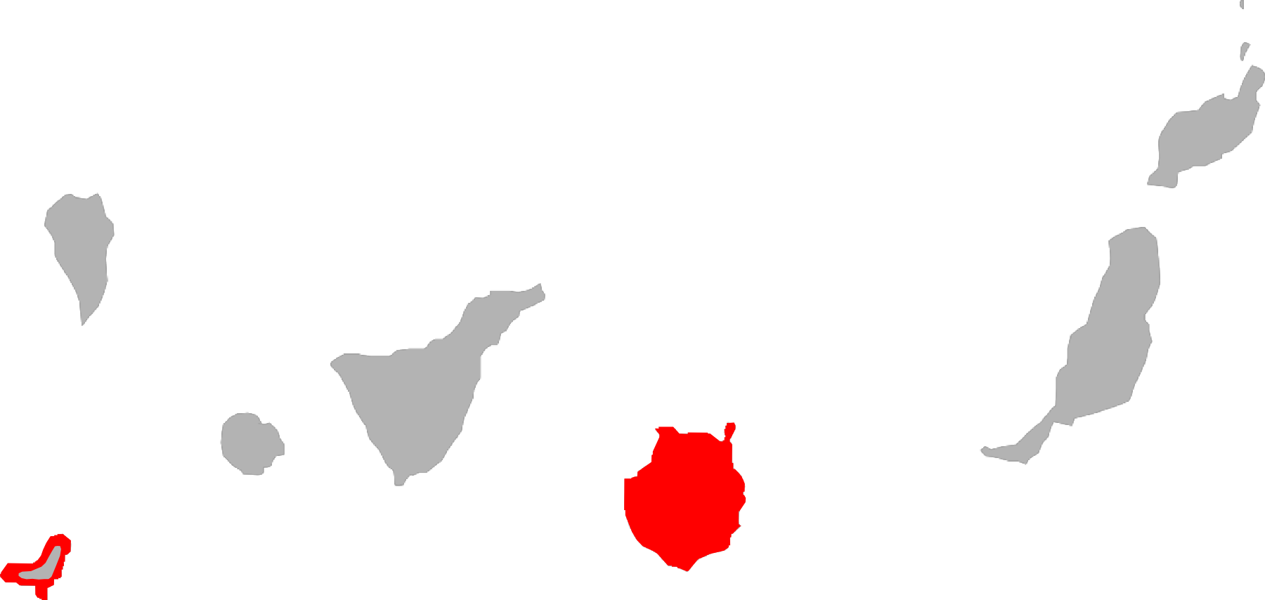 Tarentola boettgeri distribution map.